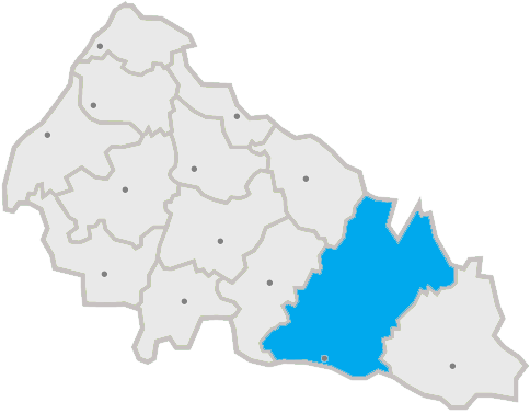 Ukraine, Oblast Transcarpathia, Rajon Tiachiv highlighted